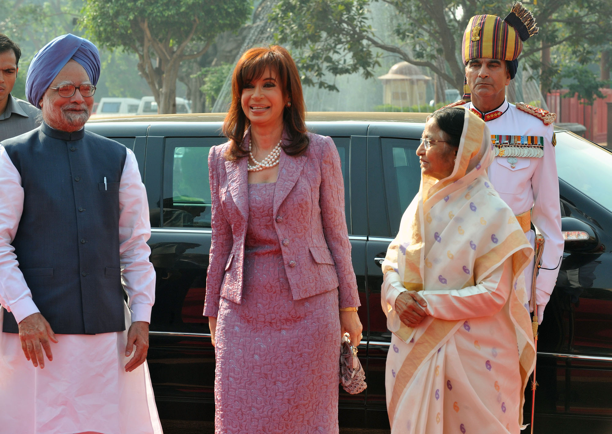 President Cristina Fernandez de Kirchner in India.